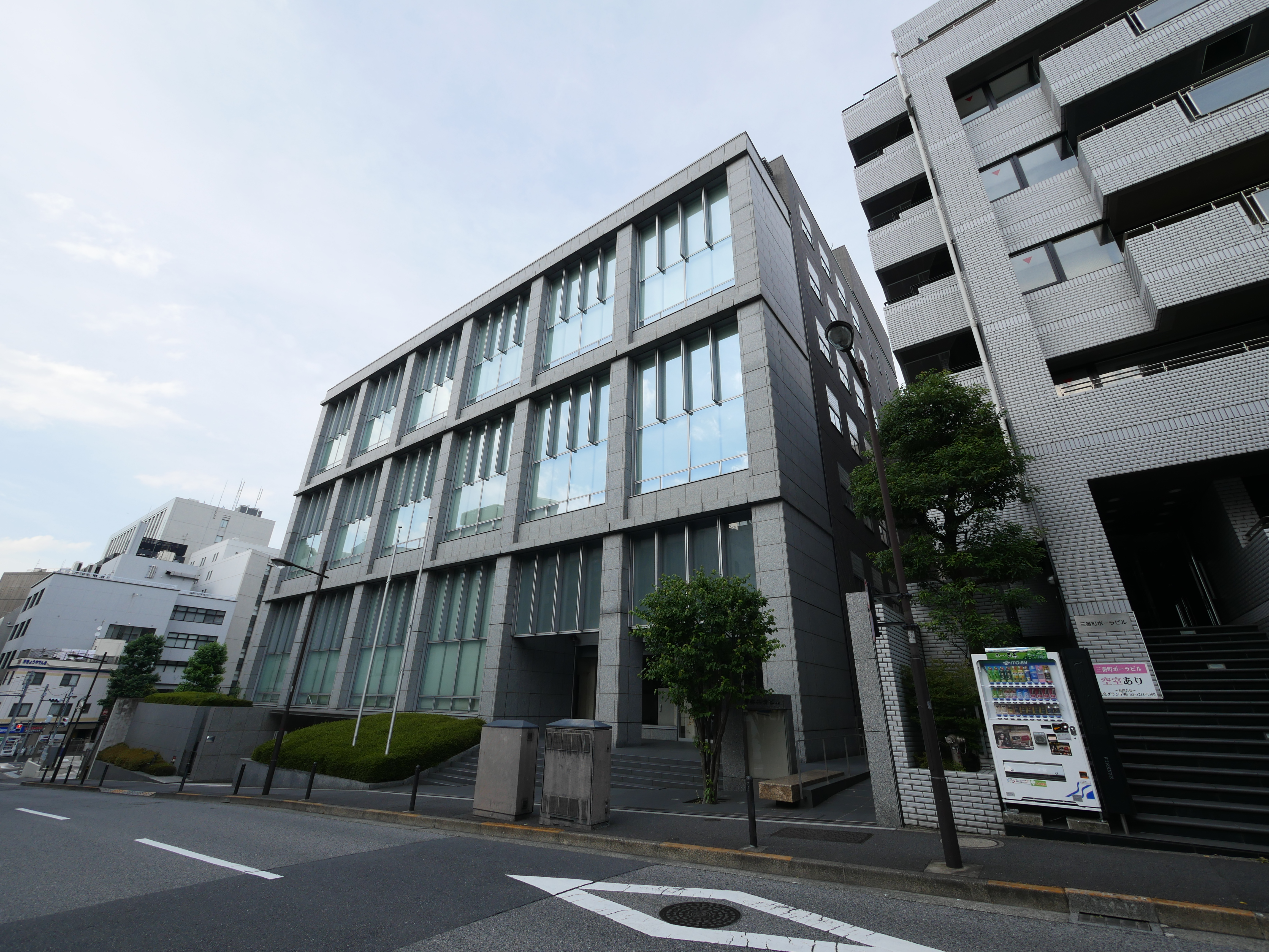 Keisatsu Kyosai(Japan Police Personnel MUtual Aid Association) Building